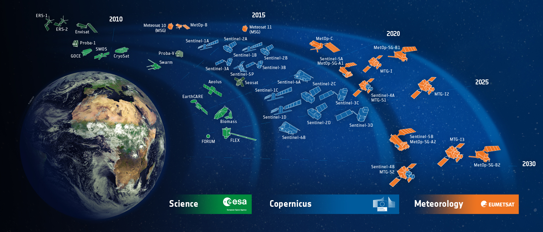 ESA has been dedicated to observing Earth from space ever since the launch of its first Meteosat weather satellite back in 1977. With the launch of a range of different types of satellites over the last 40 years, we are better placed to understand the complexities of our planet, particularly with respect to global change. Today’s satellites are used to forecast the weather, answer important Earth-science questions, provide essential information to improve agricultural practices, maritime safety, help when disaster strikes, and all manner of everyday applications.The need for information from satellites is growing at an ever-increasing rate. With ESA as world-leader in Earth observation, the Agency remains dedicated to developing cutting-edge spaceborne technology to further understand the planet, improve daily lives and support effect policy-making for a more sustainable future.